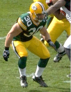 Green Bay Packers| fullback John Kuhn during a home game against the Atlanta Falcons.